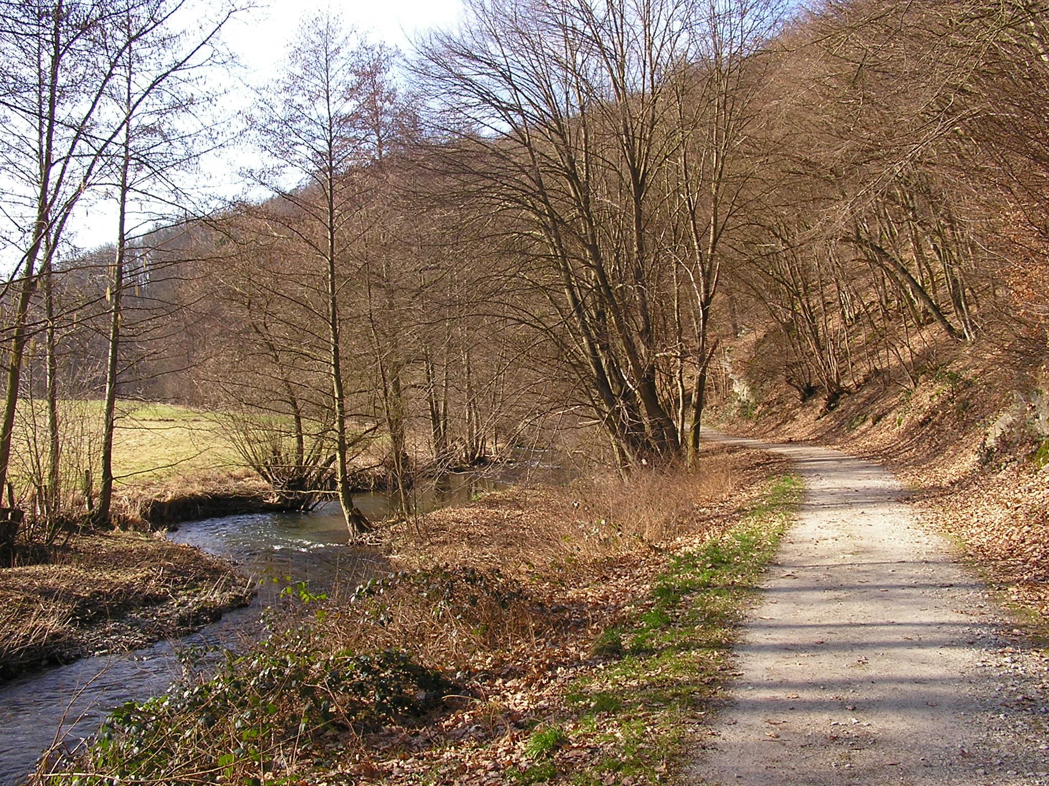 Between Weilrod-Neuweilnau and -Rod an der Weil the Weiltalweg (Weil valley way) trails alongside the Weil.